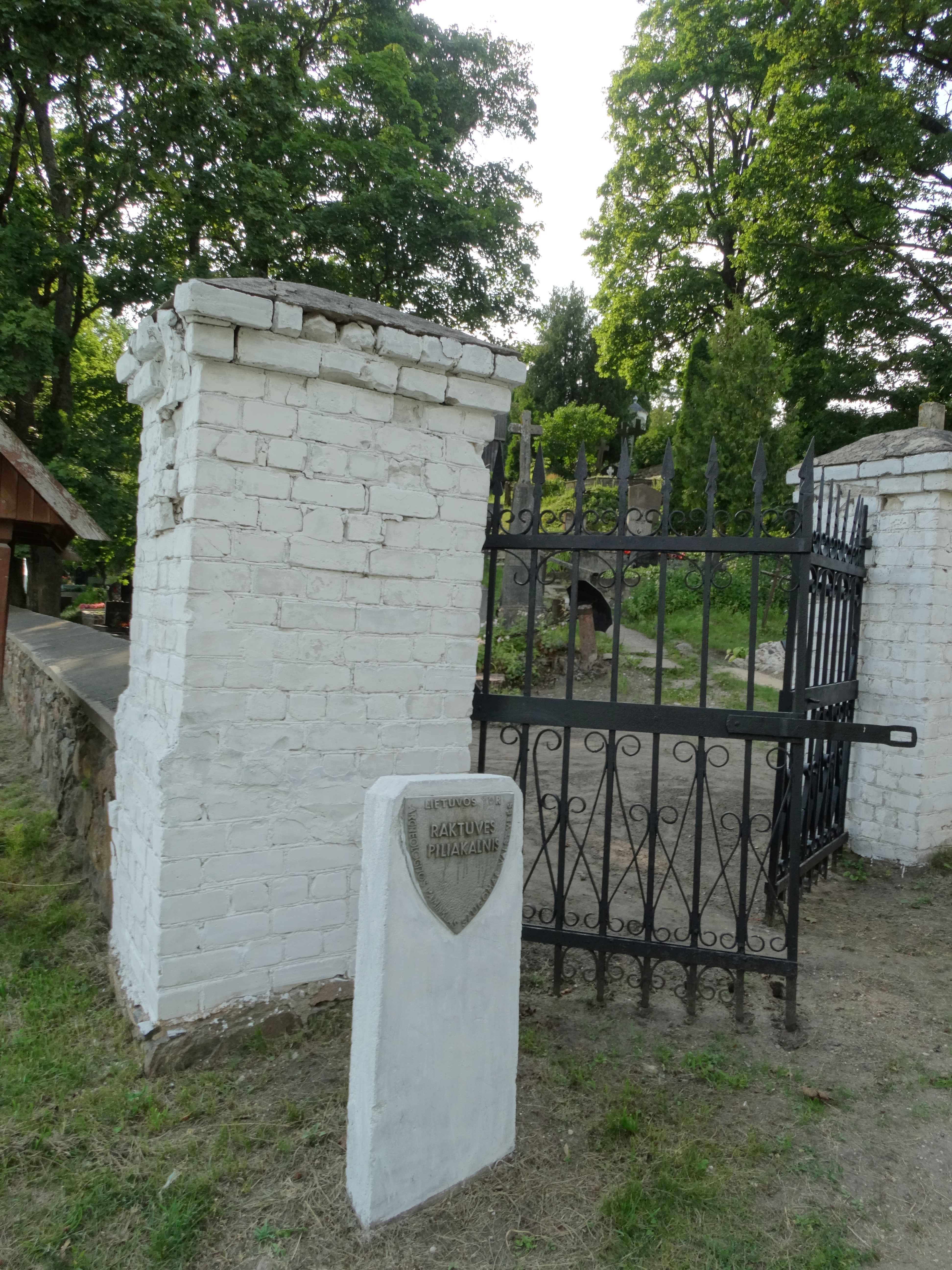 Žagarė II hillfort or Raktuvė hill, Joniškis district, Lithuania